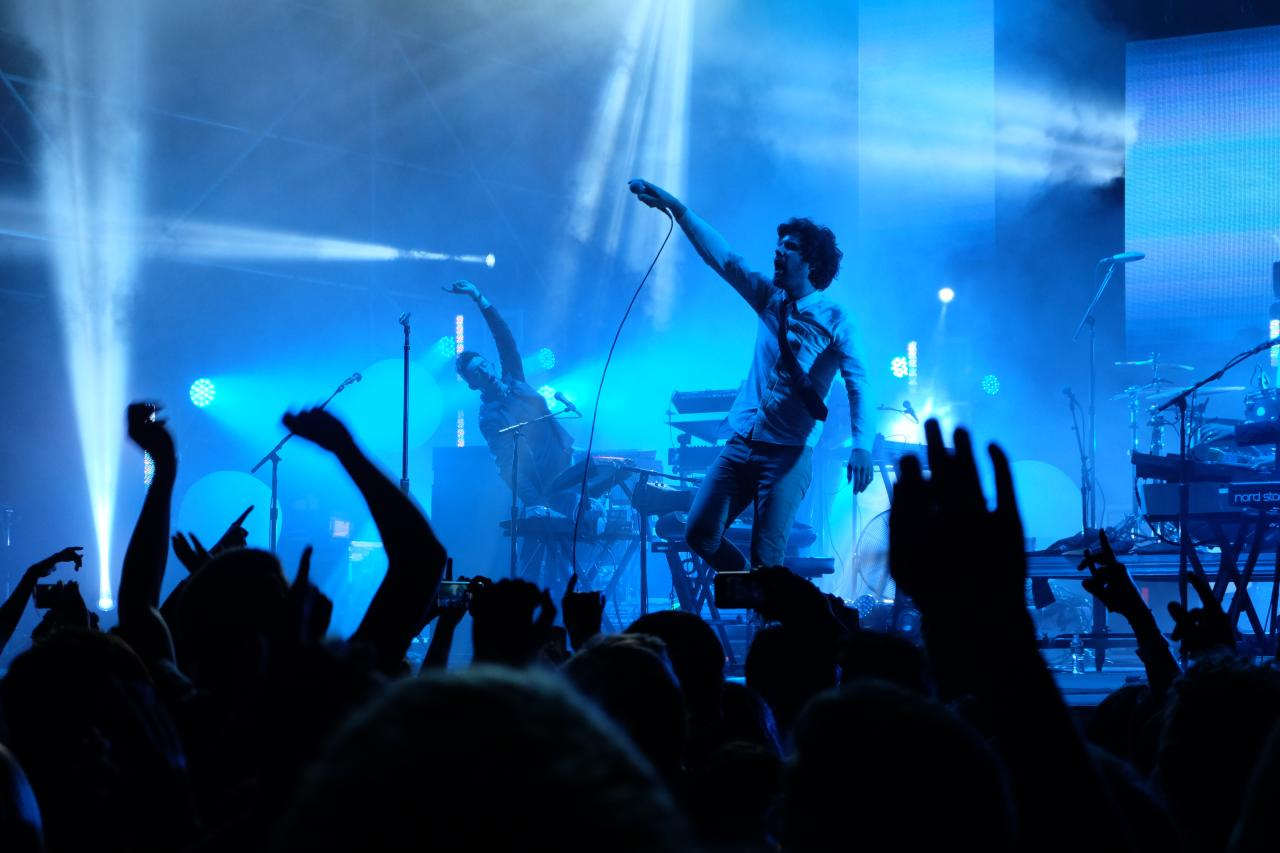 Passion Pit performing at Pier 26 in New York City, New York, in 2013